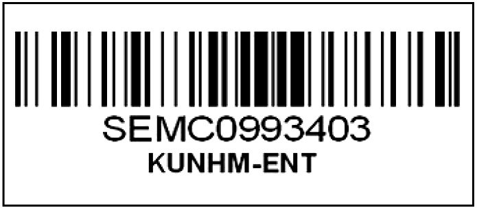 Linear barcode in use at the Entomology collection of the University of Kansas Natural History Museum in Lawrence, Kansas.